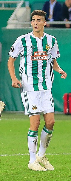 Mert Müldür